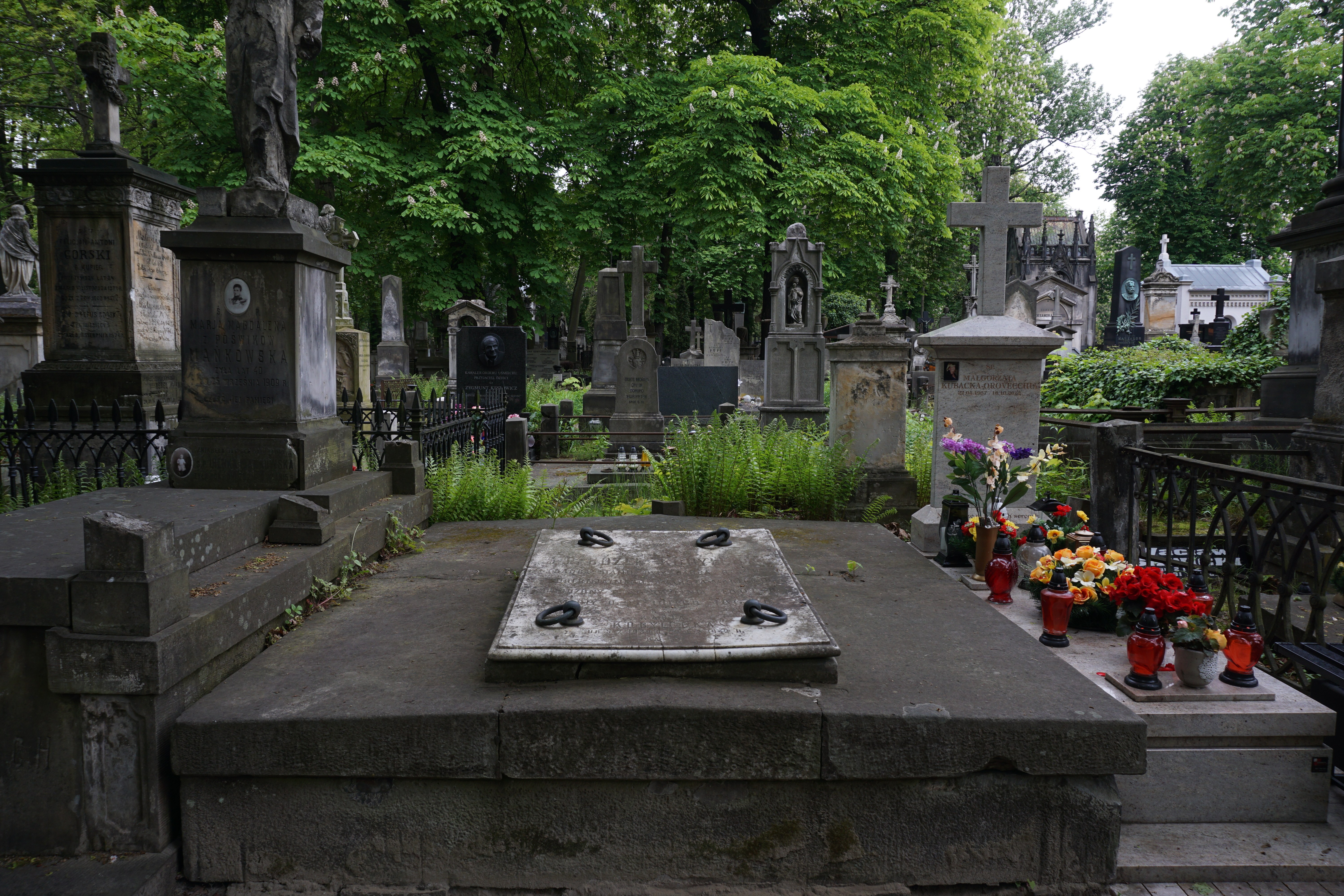 The grave of Józef Kobyłecki at the Powązki Cemetery (section 21, row 1, grave 16, 17)